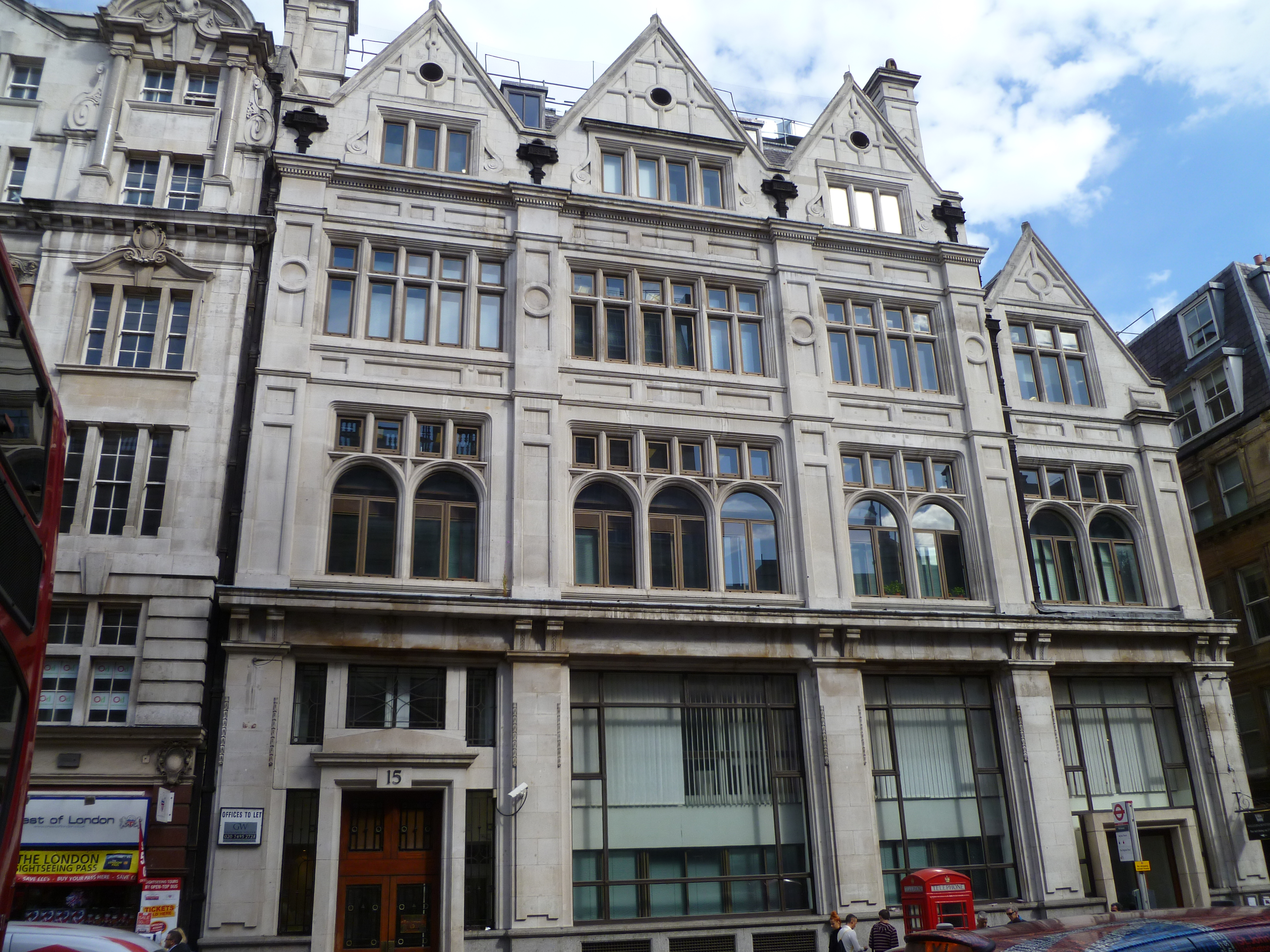 Bank building of Messrs Cox & Co, Whitehall, Westminster, designed by Ewan Christian, 1884-86, lower extension on corner of Craig's Court, 1900 by J. H. Christian, EC's cousin. Cox's were bankers to the army.